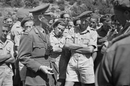 Lieutenant General Edward Puttick, who accompanied Prime Minister Peter Fraser, talks with men of the NZ Divisional Supply Company and men of the Divisional Petrol Company in the Volturno Valley area in Italy, during World War II. Photograph taken circa 30 May 1944 by George Robert Bull. Bull, George Robert, 1910-1966. Lieutenant General Edward Puttick talks with New Zealand personnel in the Volturno Valley area, Italy, World War II - Photograph taken by George Bull. New Zealand. Department of Internal Affairs. War History Branch :Photographs relating to World War 1914-1918, World War 1939-1945, occupation of Japan, Korean War, and Malayan Emergency. Ref: DA-05910-F. Alexander Turnbull Library, Wellington, New Zealand. George Bull was an official photographer of the NZ Military Forces and thus copyright in this work rests or rested with the Crown. The Crown has released this work under the CC-BY 3.0 NZ license. Refer to source website for details: This work's copyright expired 50 years after creation in New Zealand and probably also in countries following the rule of the shorter term.